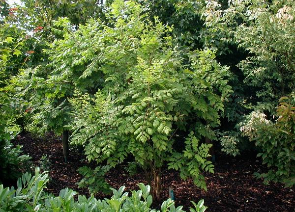 Koelreutheria paniculata: Habit (small tree).